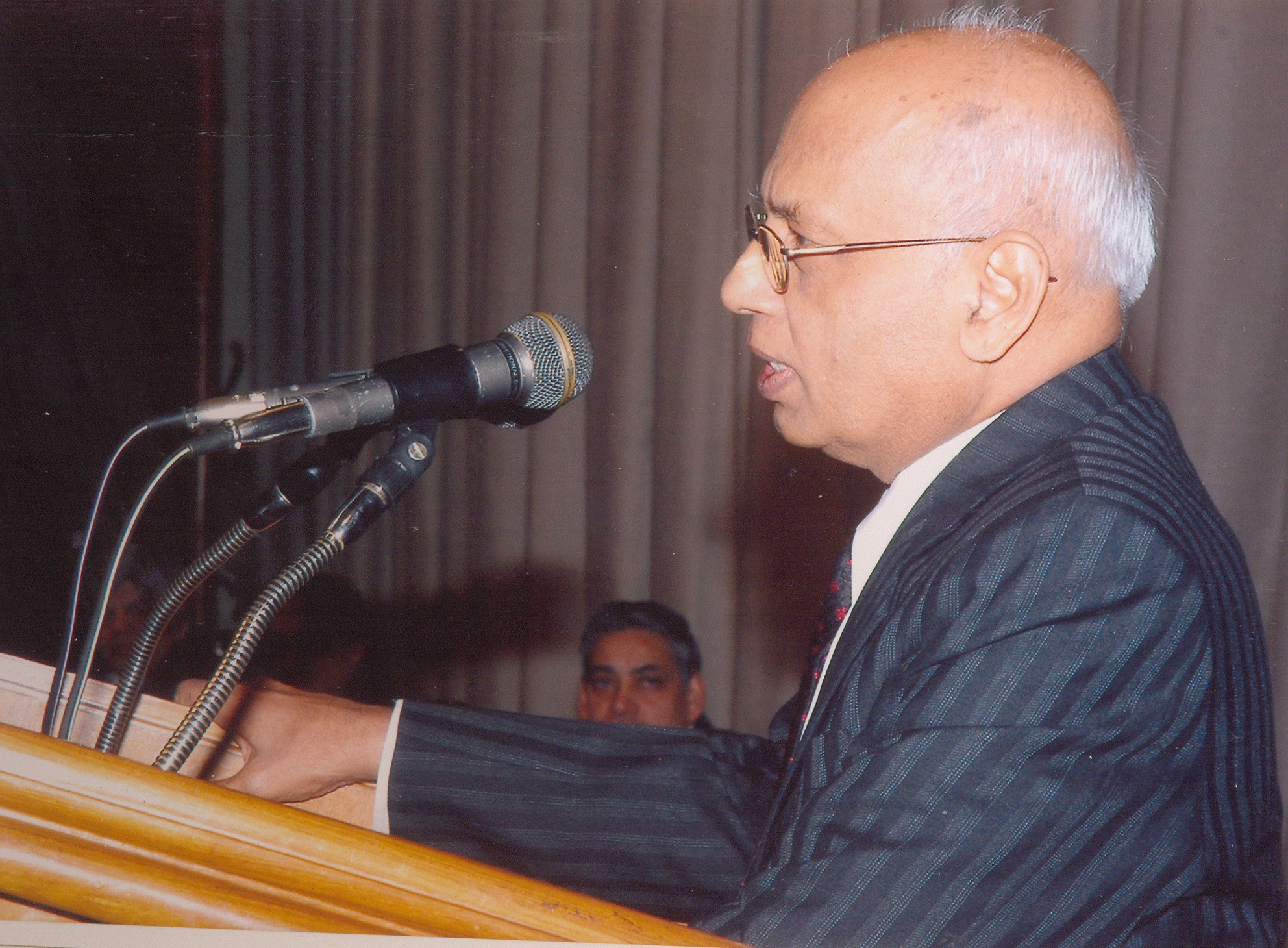 Dr. MS Valiathan